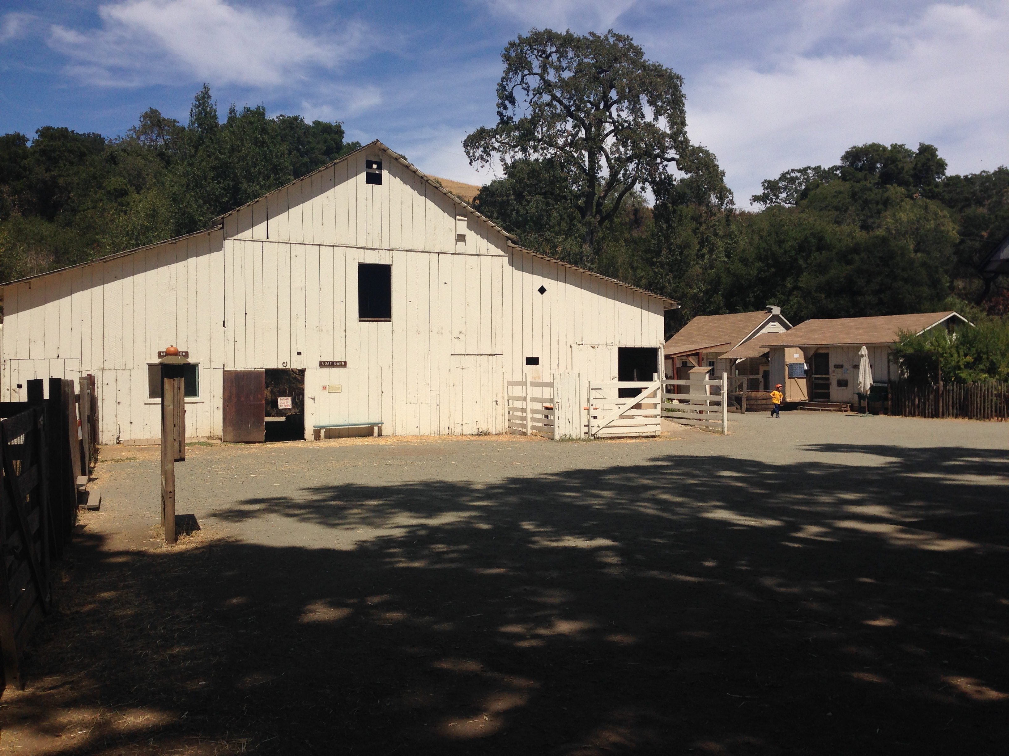 Near Mountain View, California